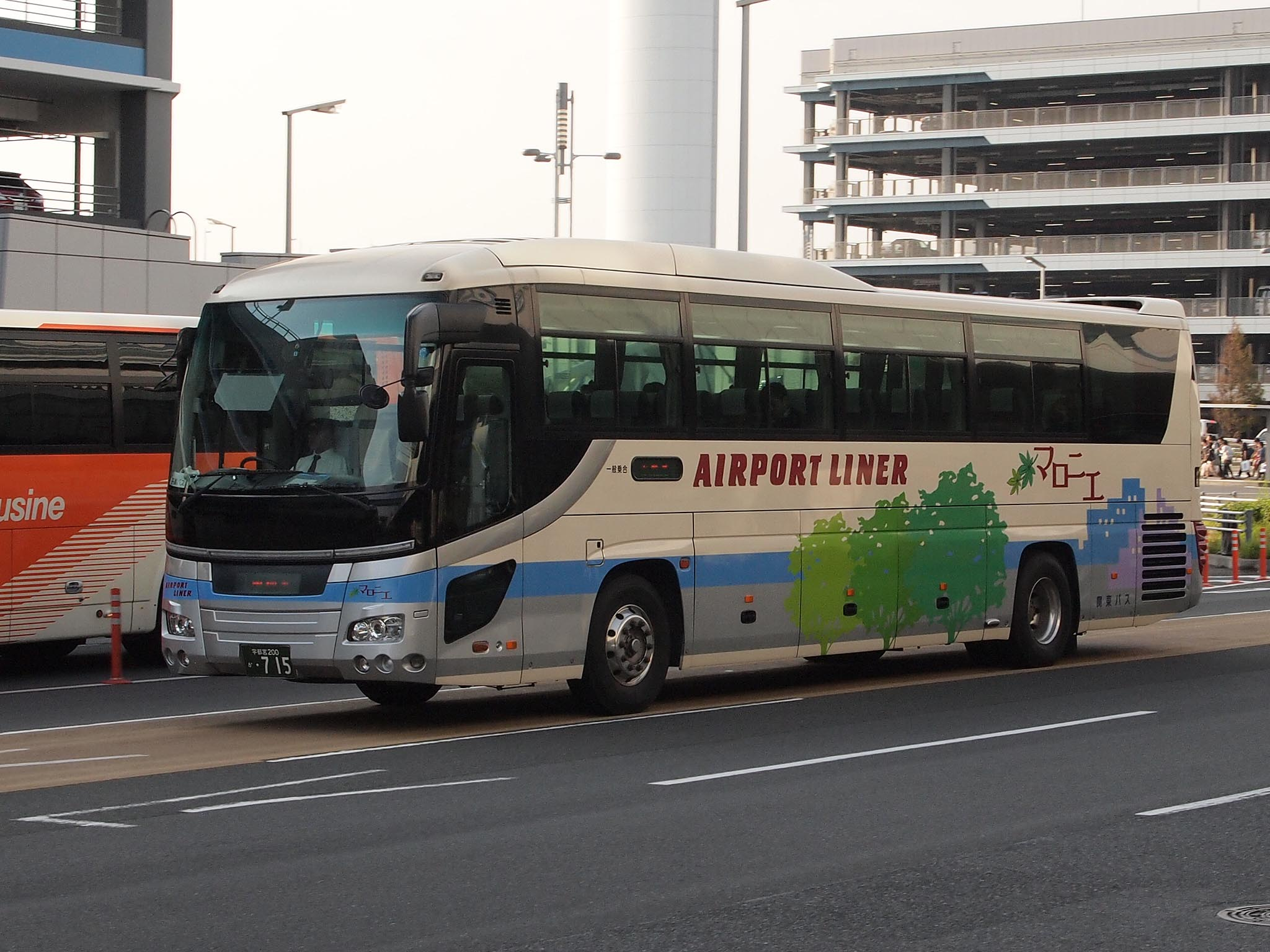 Fleet of "Airport Liner Marronnier", bound for Tokyo International Airport (Haneda Airport) and Narita Airport from Utsunomiya, Tochigi. Model: Hino Selega HD ADG-RU1ESAA License plate: TGU200 KA-715 Place: Tokyo International Airport